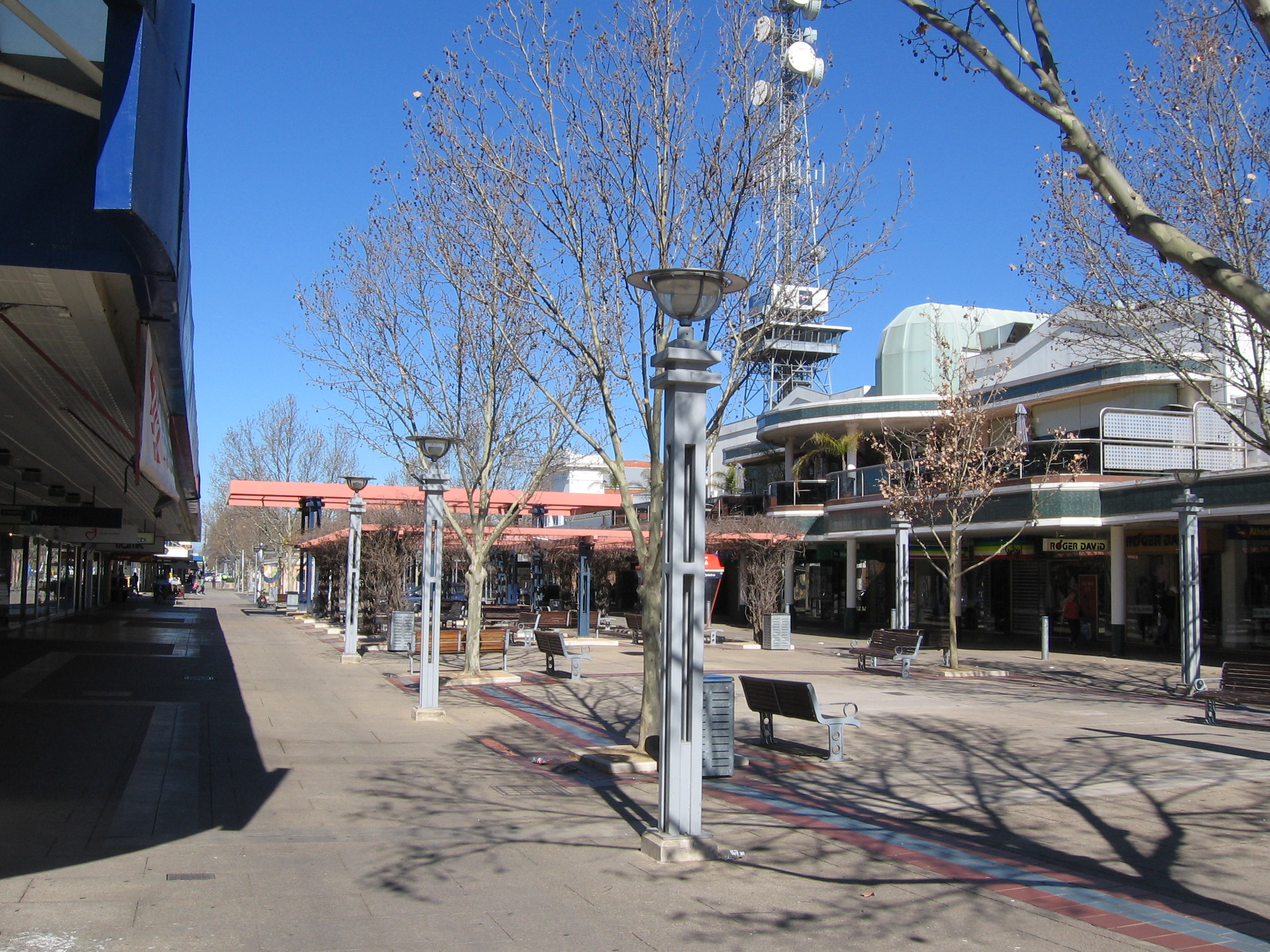 Maude St Mall in Shepparton, Victoria